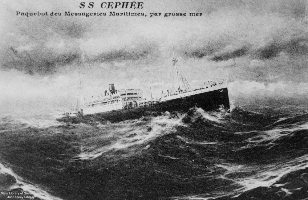 12,056 GRT passenger liner Céphée, built by Bremer Vulkan and launched in 1912 as Buenos Aires for Hamburg Südamerikanische Dampfschifffahrts-Gesellschaft. Seized by France in 1918 as part of First World War reparations. Passed to Messageries Maritimes in November 1921 and renamed Céphée. Ran between France and Australia: first departure 30 April 1922. On another voyage she left Marseille on 25 August 1926 and reached Sydney on 18 October 1926. Scrapped at Blyth, Northumberland in 1935.